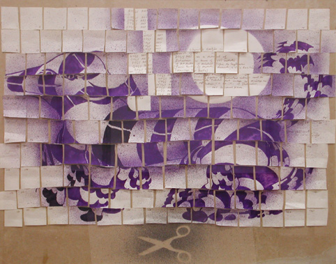 'Homage to Balla' by Christo Coetzee, 1975, gouache on paper, 67 x 79cm.